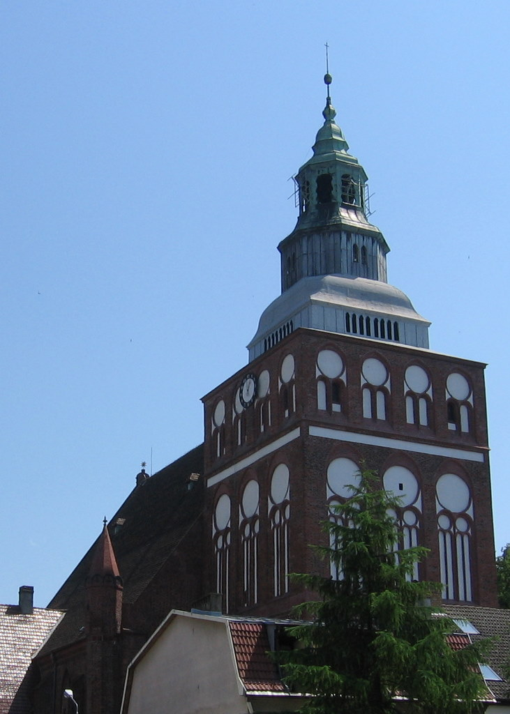 Church of the Assumption of the Blessed Virgin Mary in Gryfice, Poland